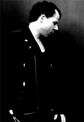 Description: Richard Bartz (* 1976 in Munich) is a german Techno, House and Electro-Producer. He plays his music only live .